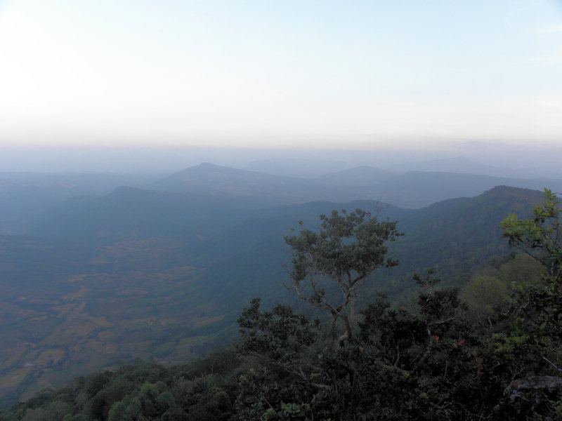 View from Phu Reua mountain